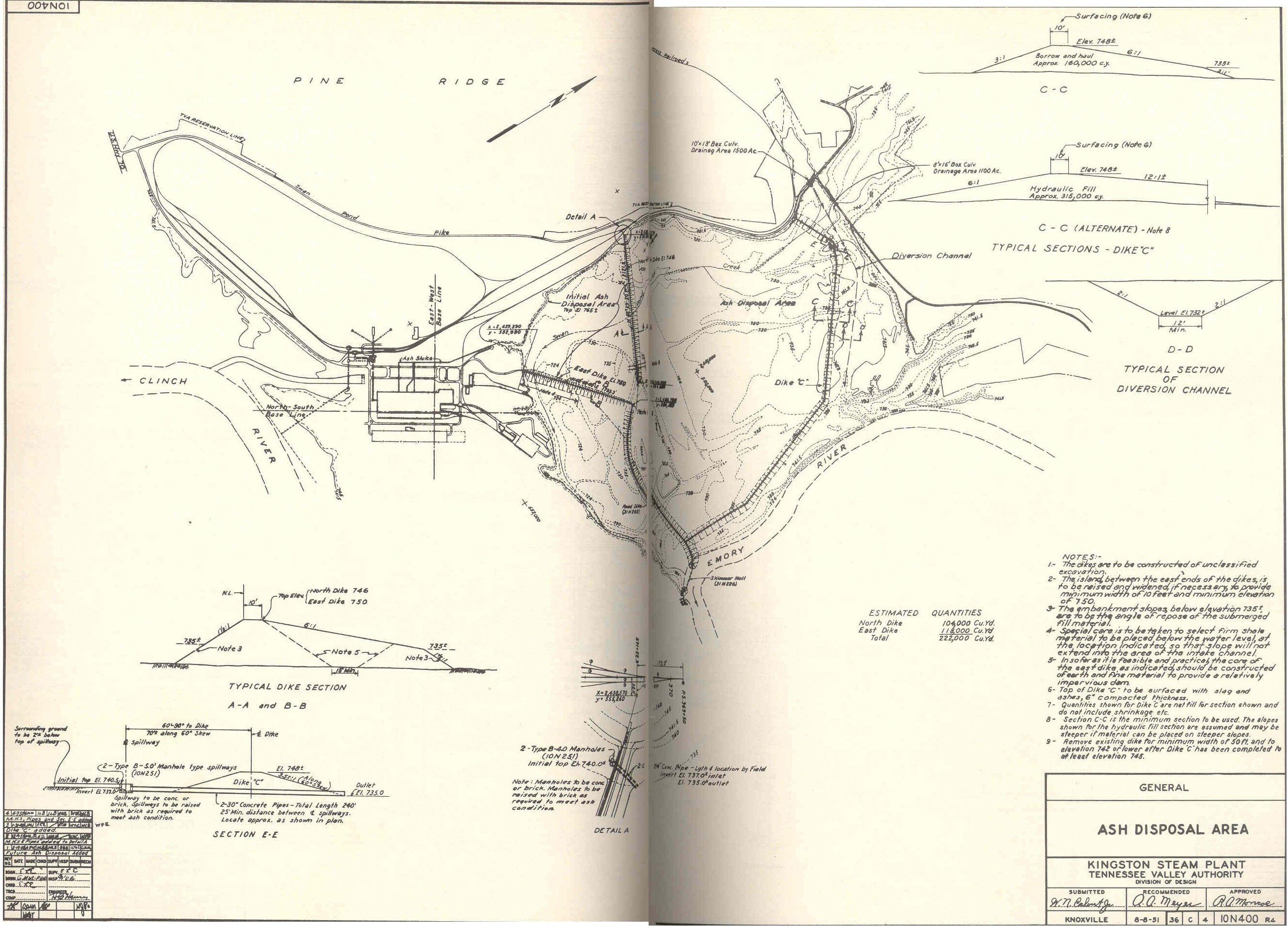 Detailed exhibit of the original design of the ash disposal area of the Kingston Fossil Plant (originally called the Kingston Steam Plant) in Kingston, Tennessee. The December 22, 2008 dike breach occurred in the northwest corner of the ash disposal area (in the vicinity of Dike "E"). Note: The exhibit covered two pages, and the dark area in the middle is due to the page fold.